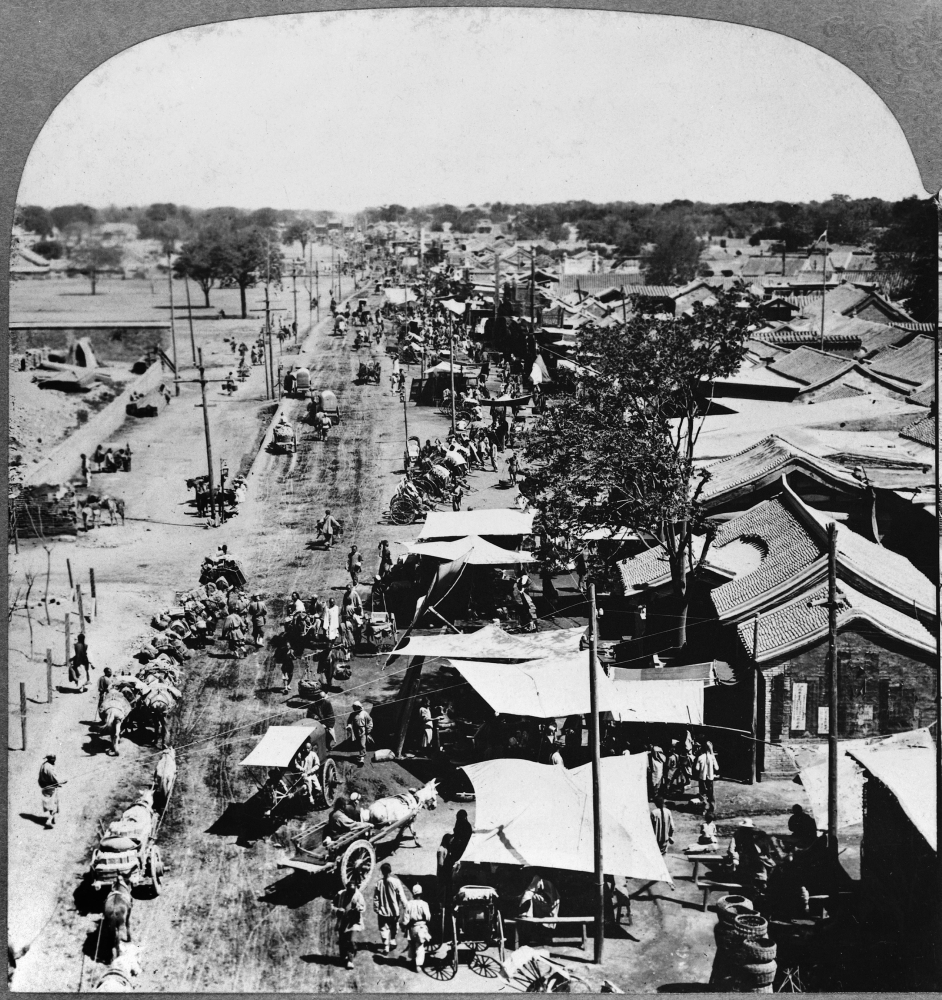 CHINA: PEKING, c1902. Aerial view of unpaved streets with pack animals, rickshaws and canopies at the scene of Ambassador Von Ketteler's murder, Peking, China. Stereograph, c1902.